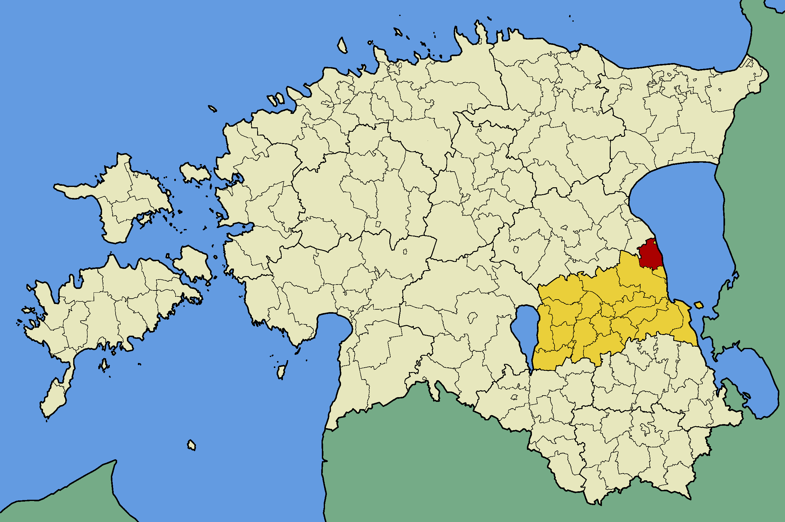 Map of Estonia with borders of municipalities (parishes). Tartu county and Alatskivi municipality emphasized.